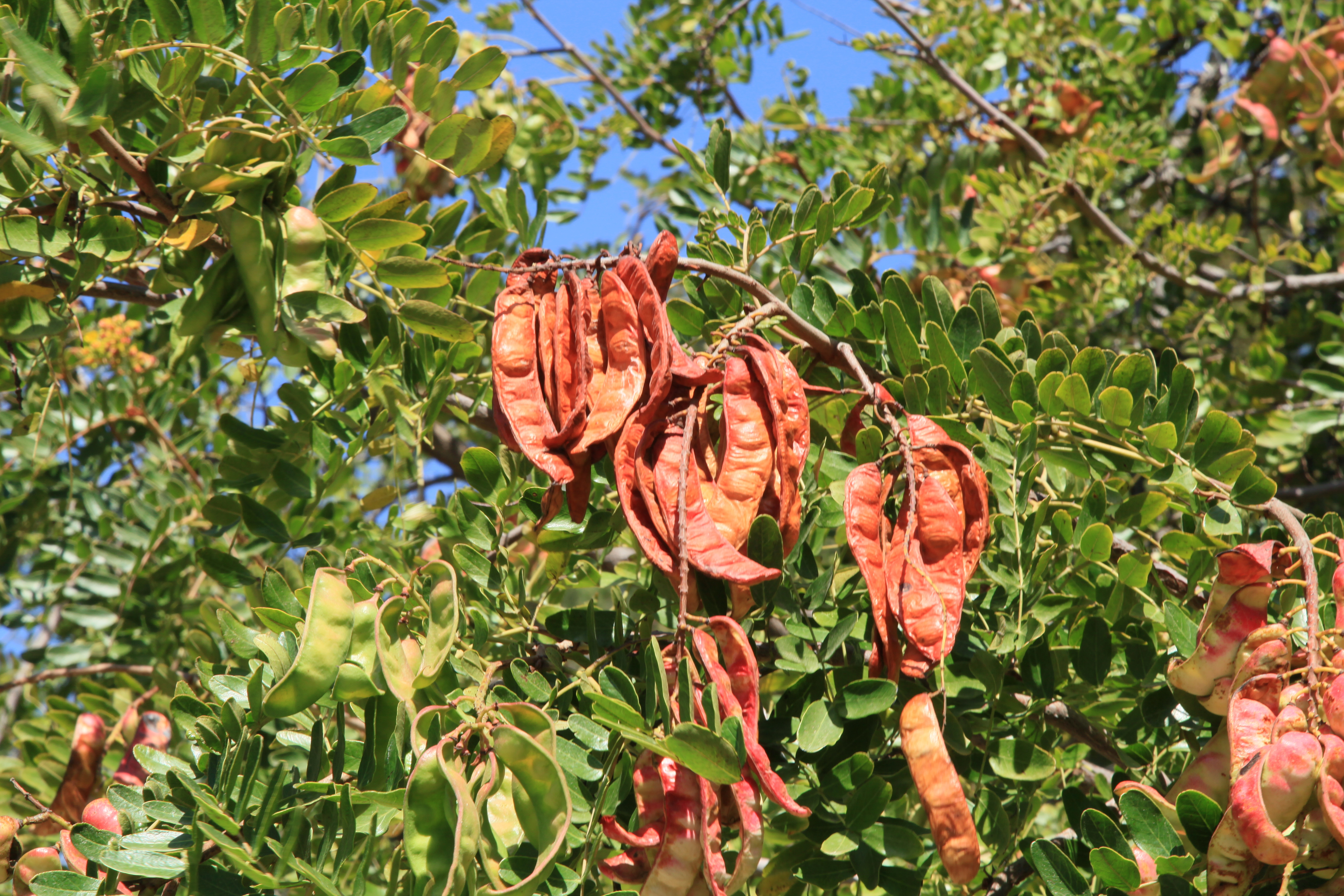 Ceratonia siliqua grown in Argotti Botanic Gardens at Triq Vincenzo Bugeja in Floriana, Malta